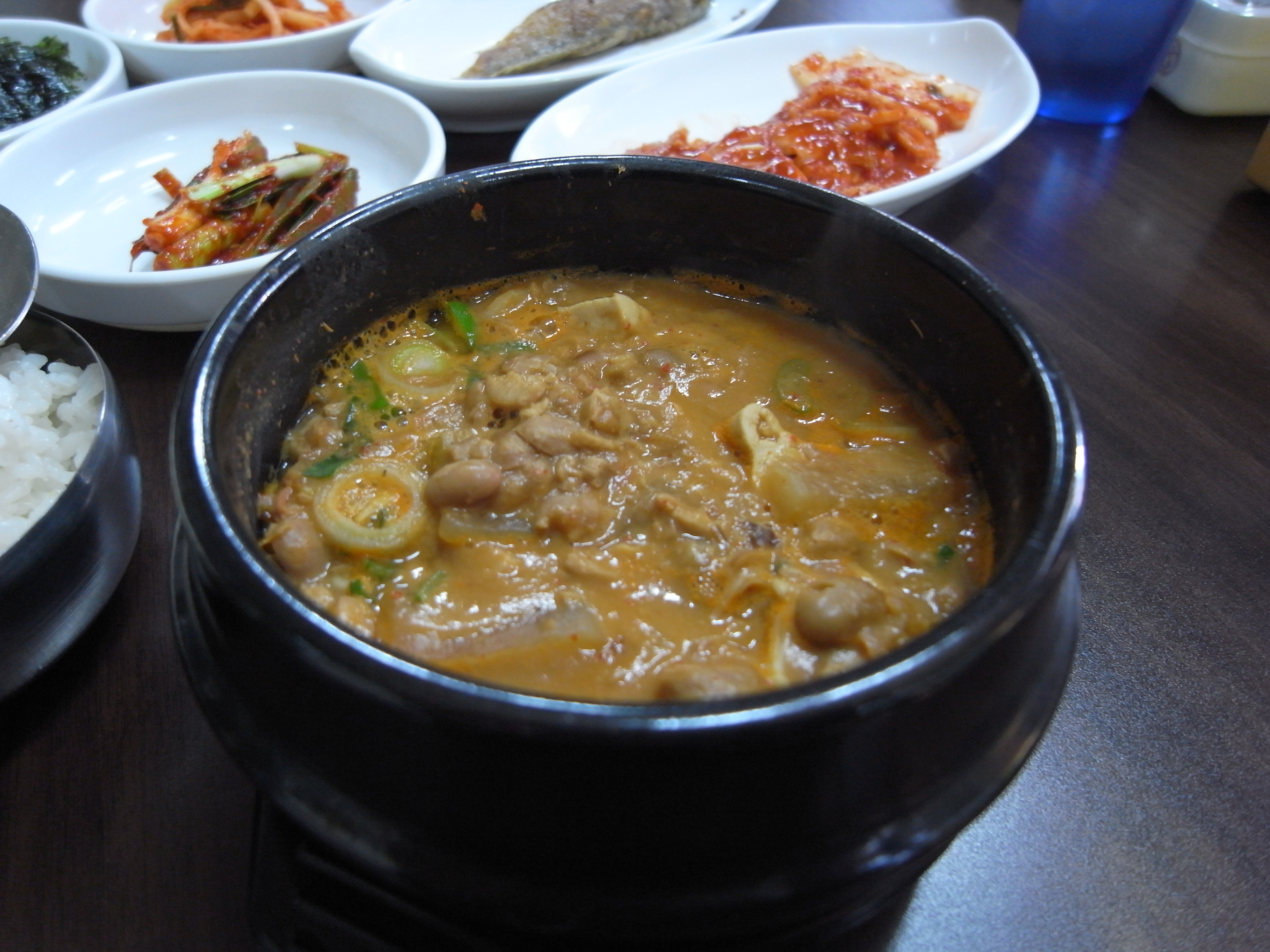 Cheonggukjang Jjigae